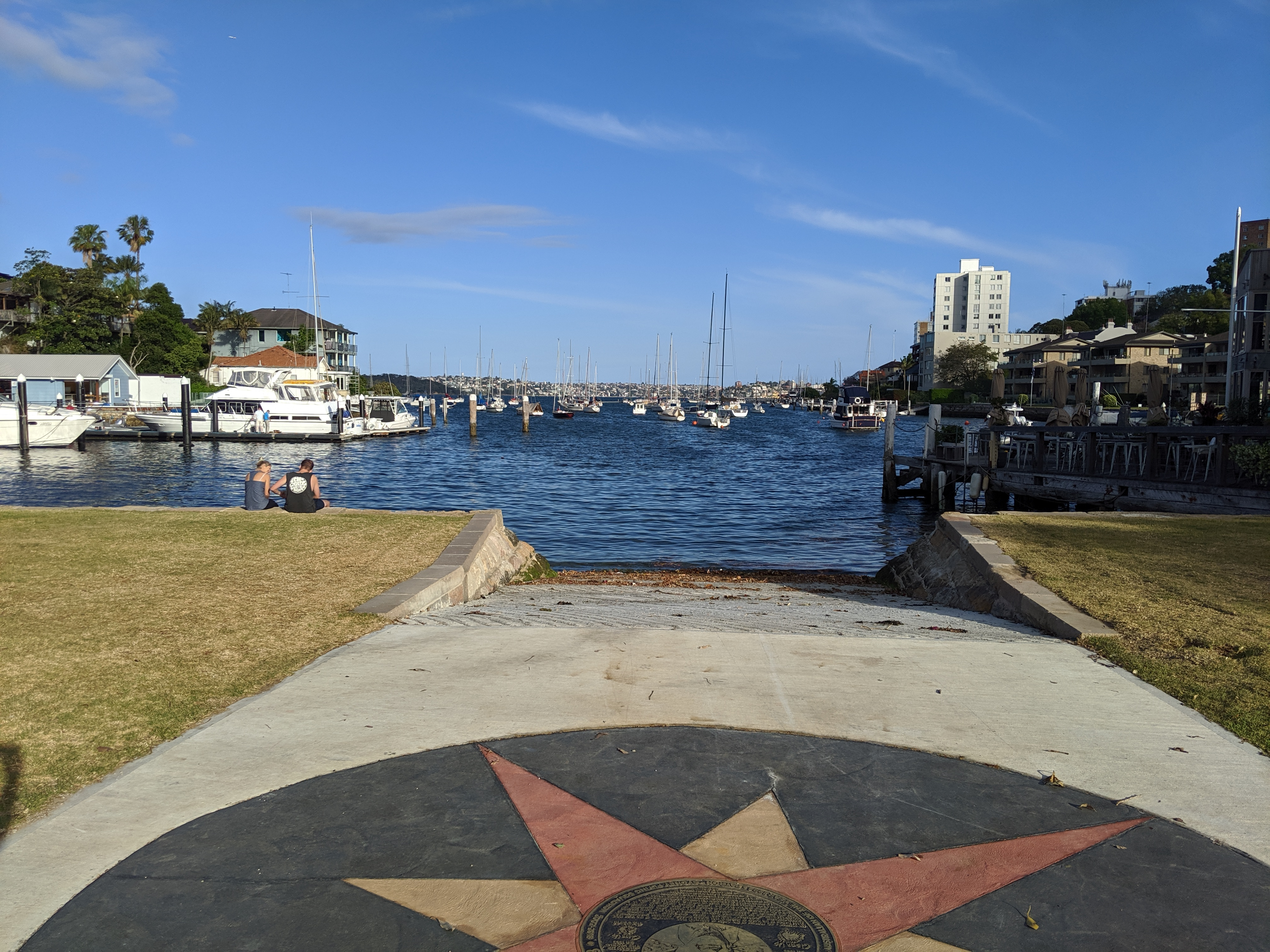 Between Sydney Flying Squadron and Kirribilli Marina.